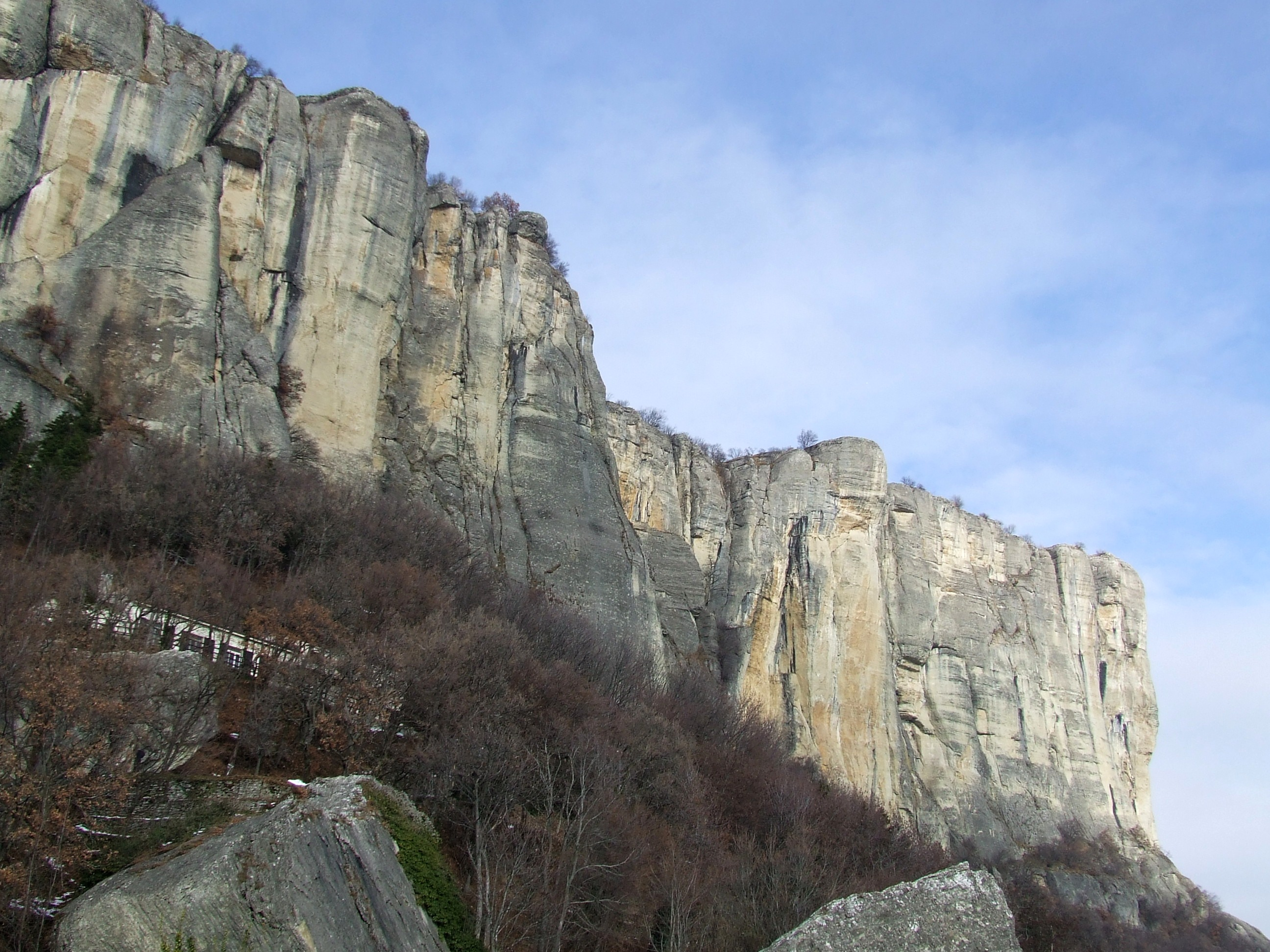 Pietra di Bismantova Mountain in Central Italy, Castelnovo Monti, Provincia di Reggio Emilia, Italia